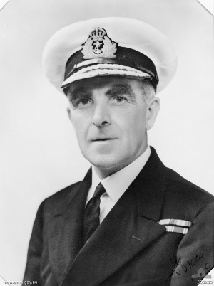 Royal Navy Vice Admiral John Gregory Crace, official portrait (as a rear admiral). AWM Caption: 1940. SIGNED STUDIO PORTRAIT OF REAR ADMIRAL J. G. CRACE RN, REAR ADMIRAL COMMANDING AUSTRALIAN SQUADRON, 1939-11-01 TO 1942-06-13. (NAVAL HISTORICAL COLLECTION).